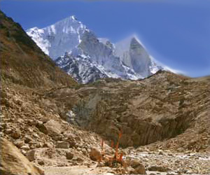 Gaumukh, source of the Ganges above Gangotri. Photo taken by Priyanath